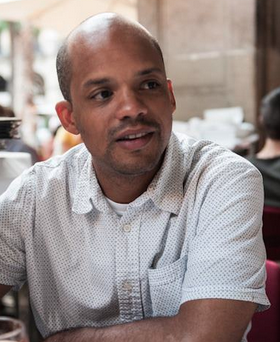 Picture of John A. Johnson, astronomer